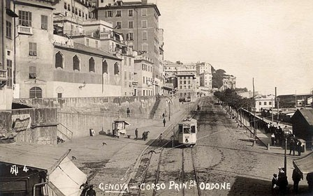 Genova, corso Principe Oddone with tramway